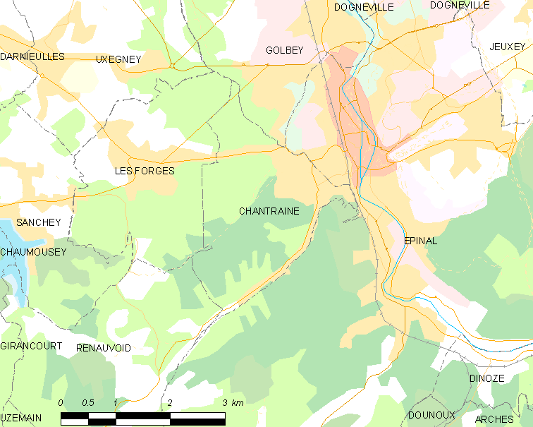 Map of French municipality Chantraine